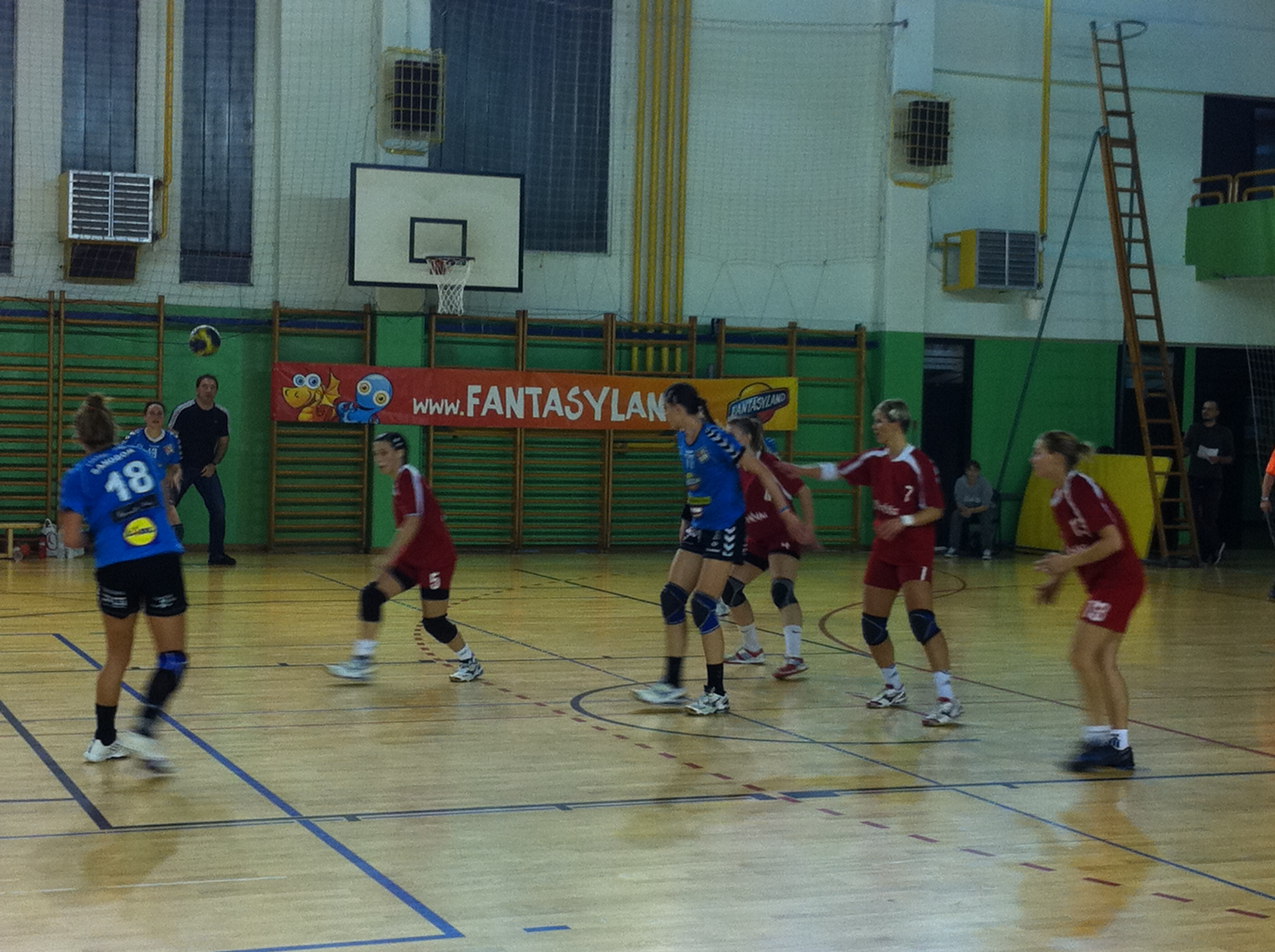 handball